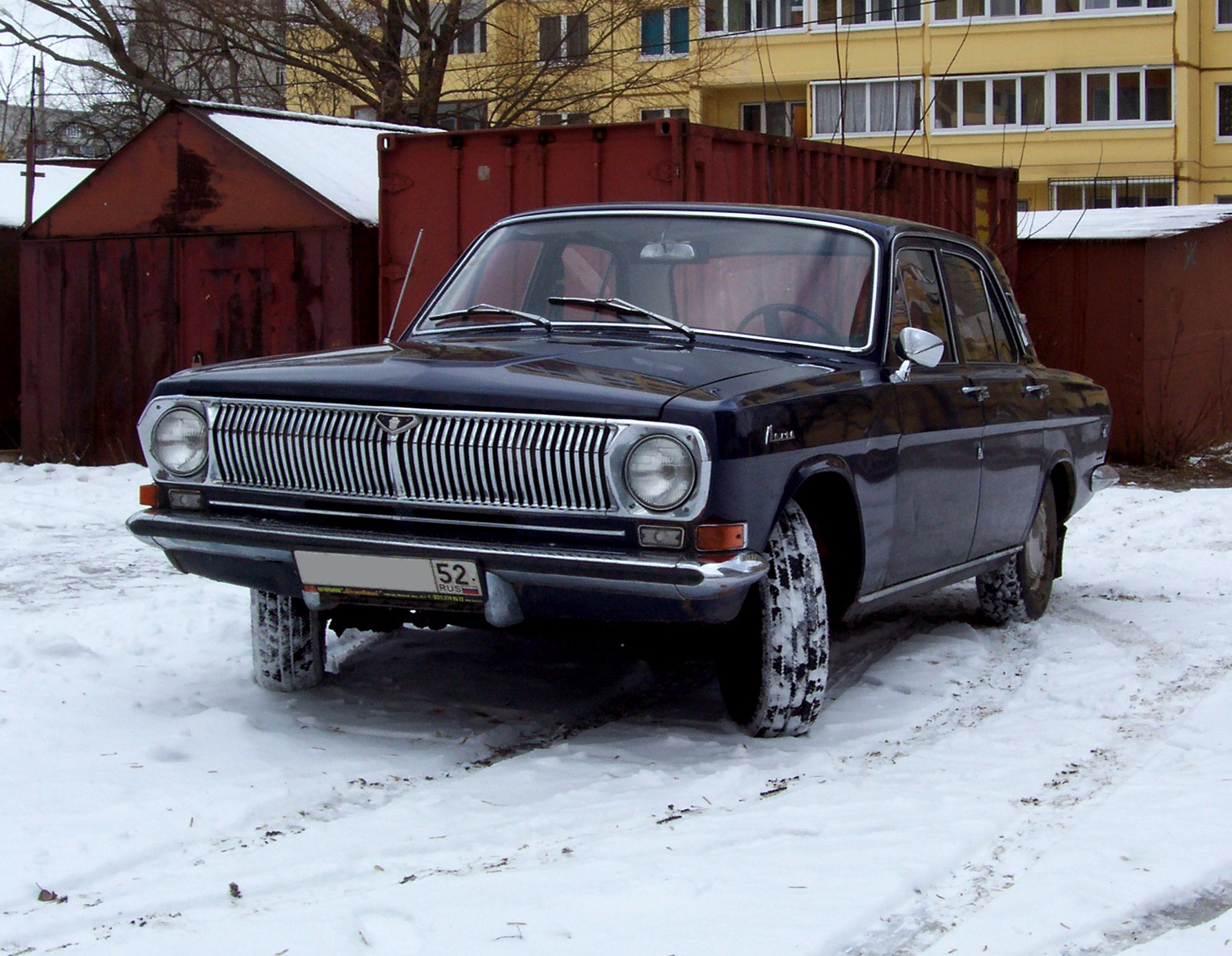 Gaz-24-I-generation-front-view